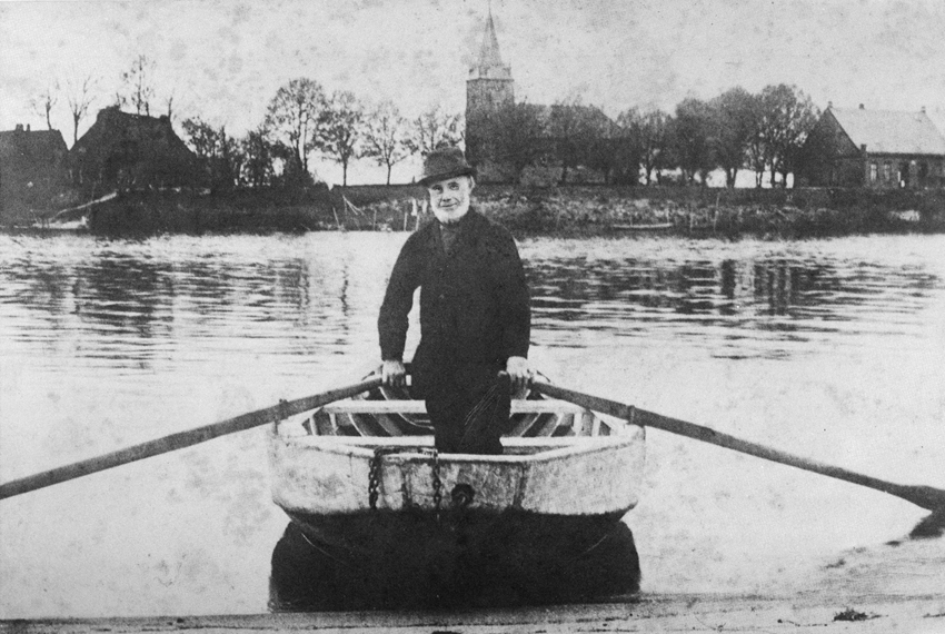 The Moorlose Kirche in Bremen-Burglesum, Germany, around 1890. In the foreground Hermann Imhoff’s ferry across the Weser.